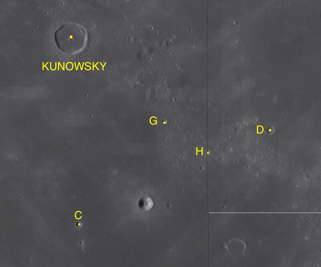 Parts of the charts LAC-57, LAC-58, LAC-75, LAC-76 used for the presentation